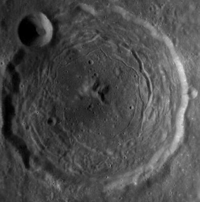 Taruntius lunar crater. LROC image WAC No. M119543948ME. Calibrated by LROC_WAC_Previewer.